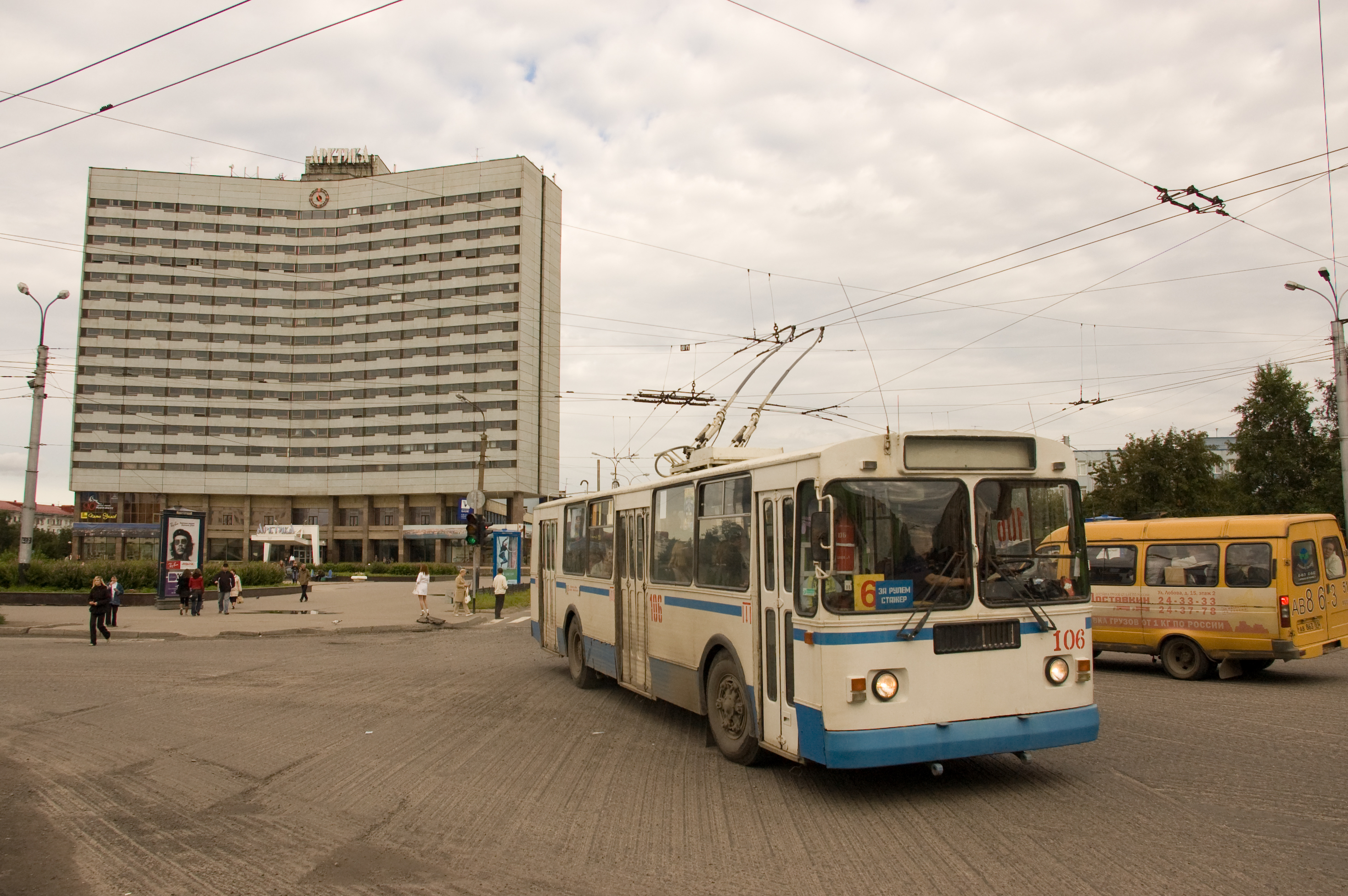 Trolleybus No. 106, a ZIU-682, in Murmansk.